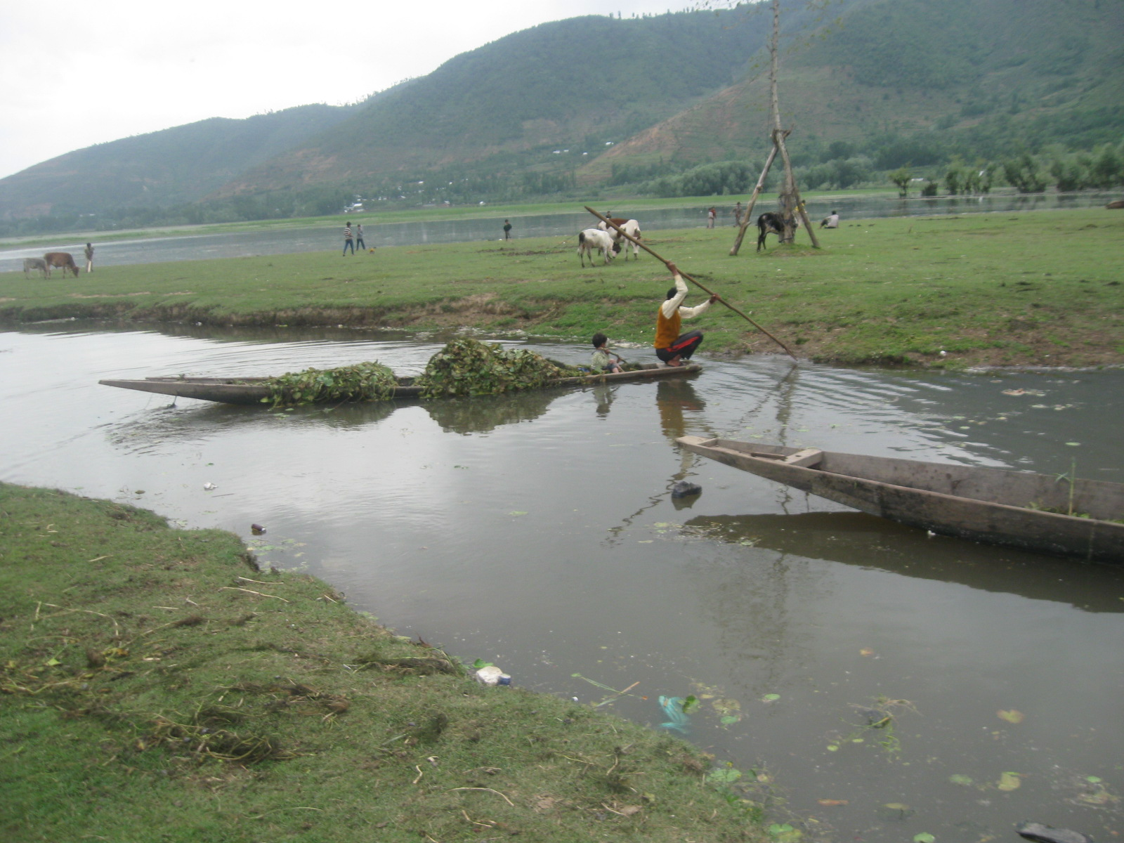 A boat carrying aquatic plants extracted from the Wullar Lake. Boatmen & villagers extract aquatic plants from the lake, which are then fed to cattle as fodder, usually after drying.